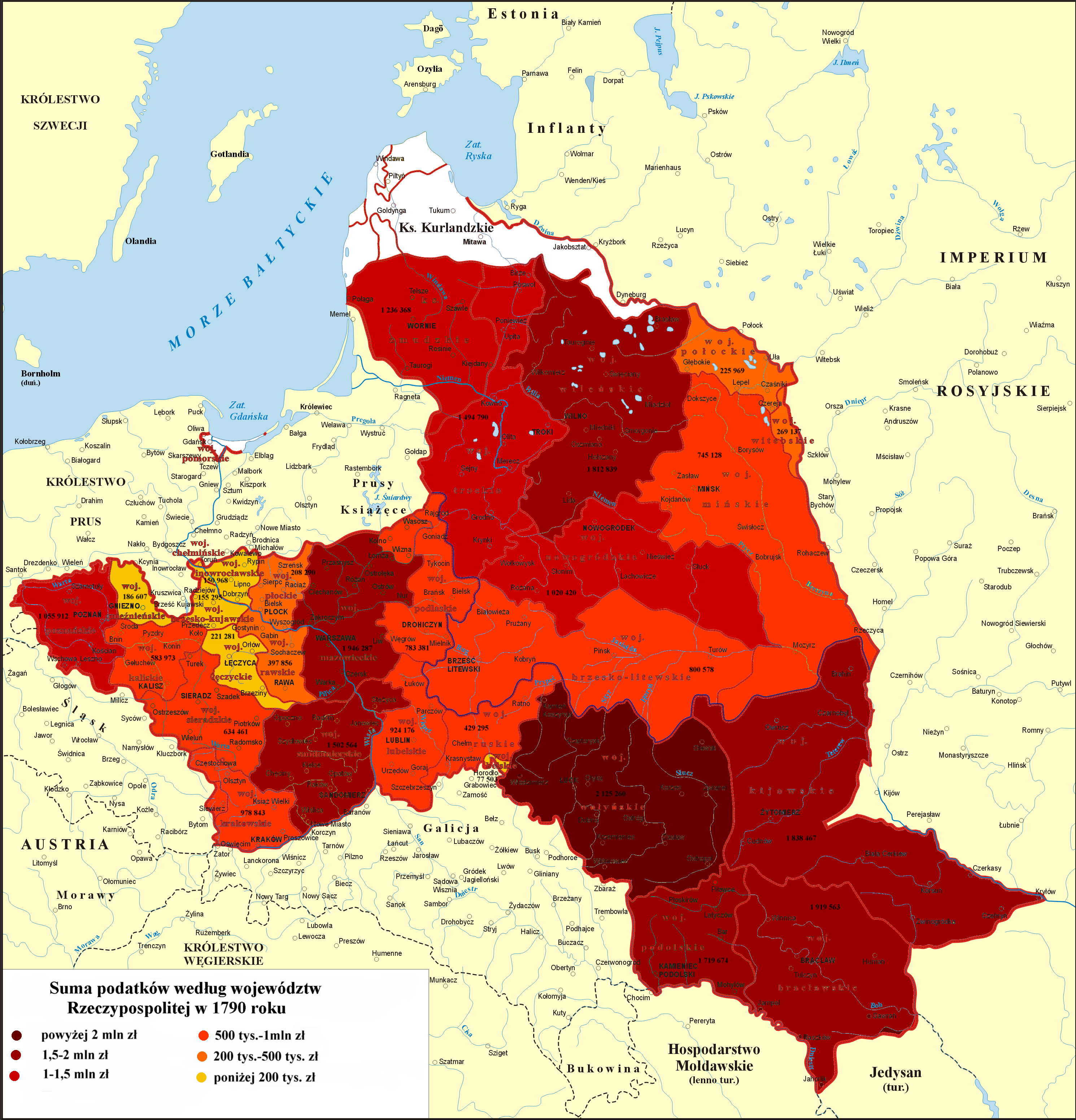 Amount of all taxes per Voivodeship of Polish-Lithuanian Commonwealth in 1790